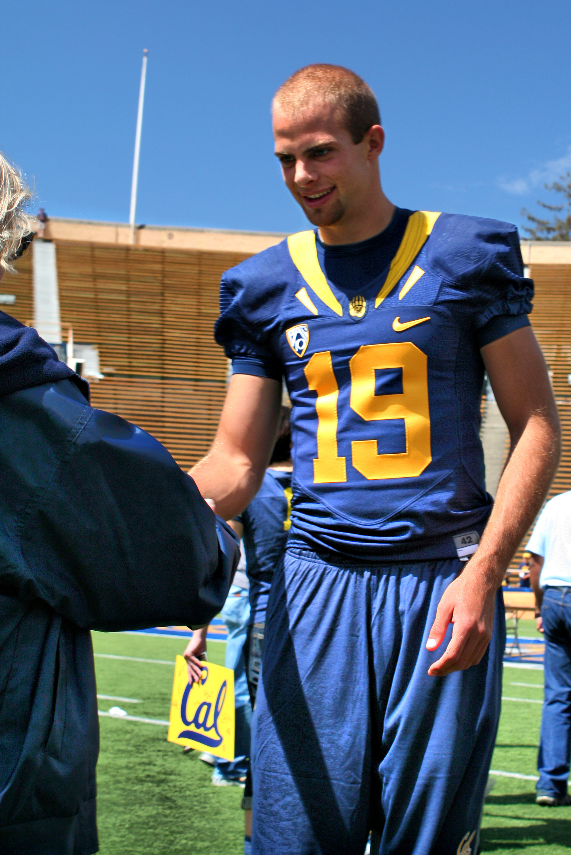 California Golden Bears punter, Bryan Anger, in 2010